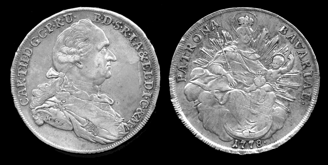 Silver thaler of Karl Theodor, inscribed on the obverse in Latin